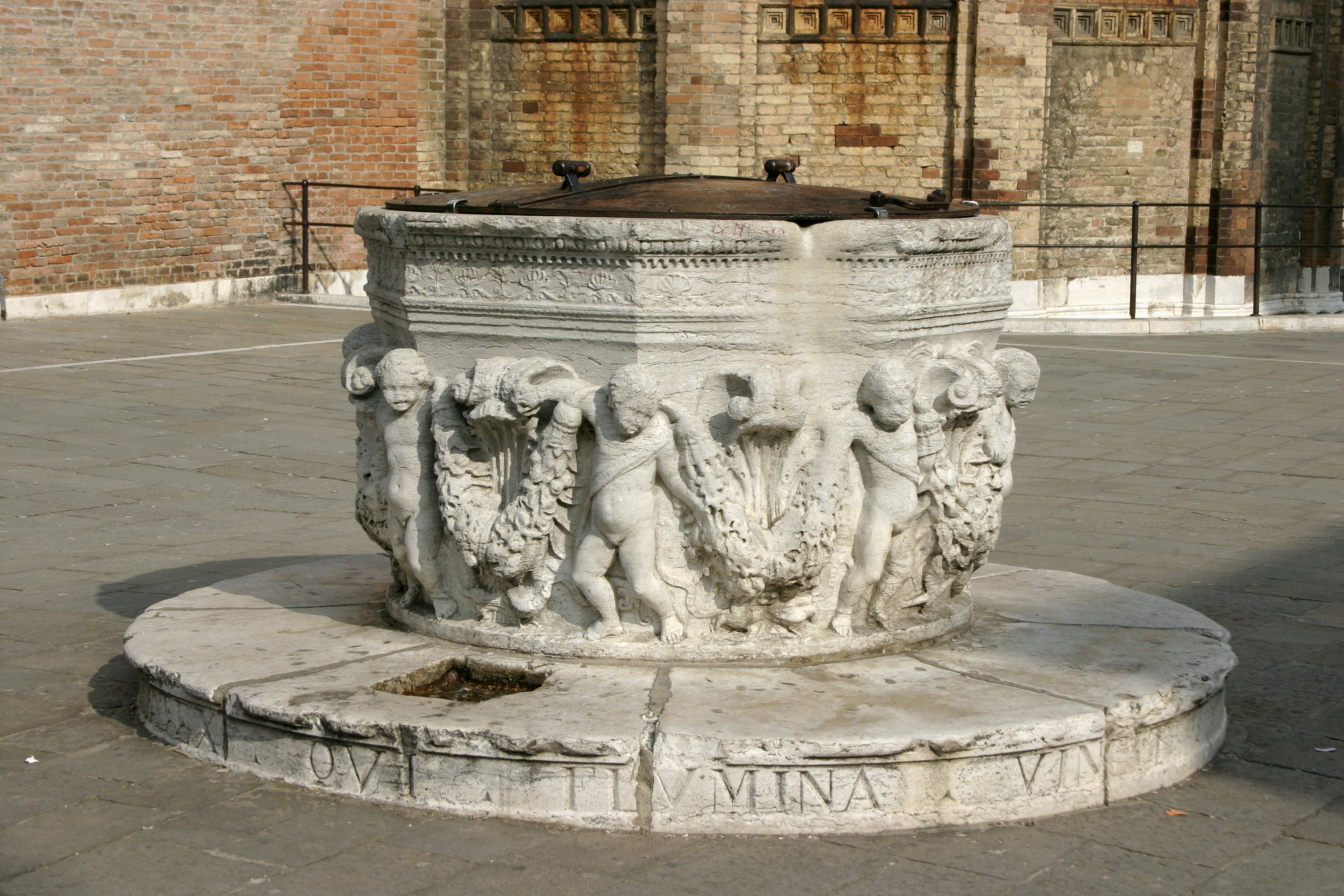 Venice – Reinassance well - Campo S. Zanipolo